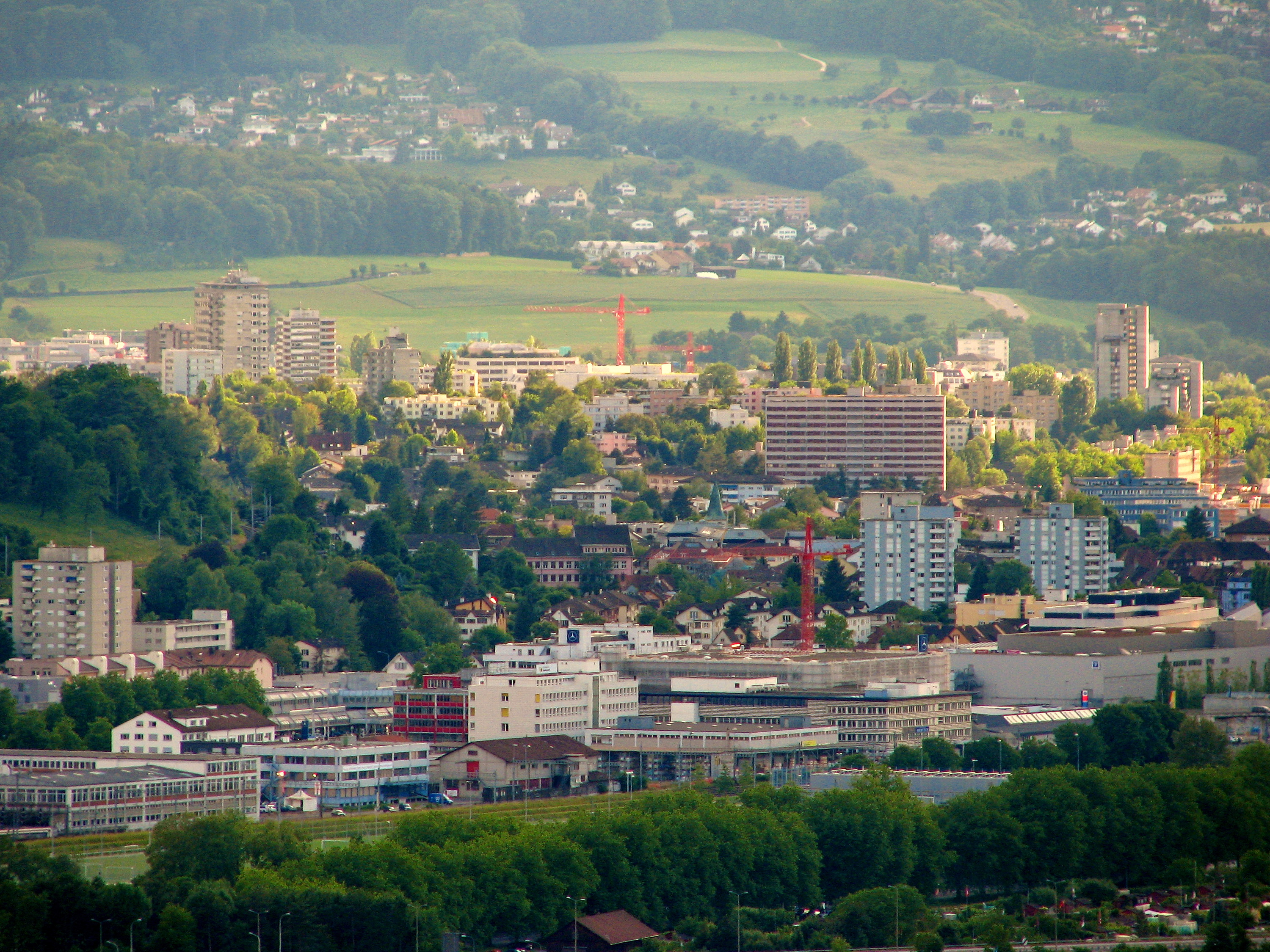 Zürich : Schlieren and Urdorf (in the background) in the upper Limmat Valley, as seen from Käferberg-Waidberg.